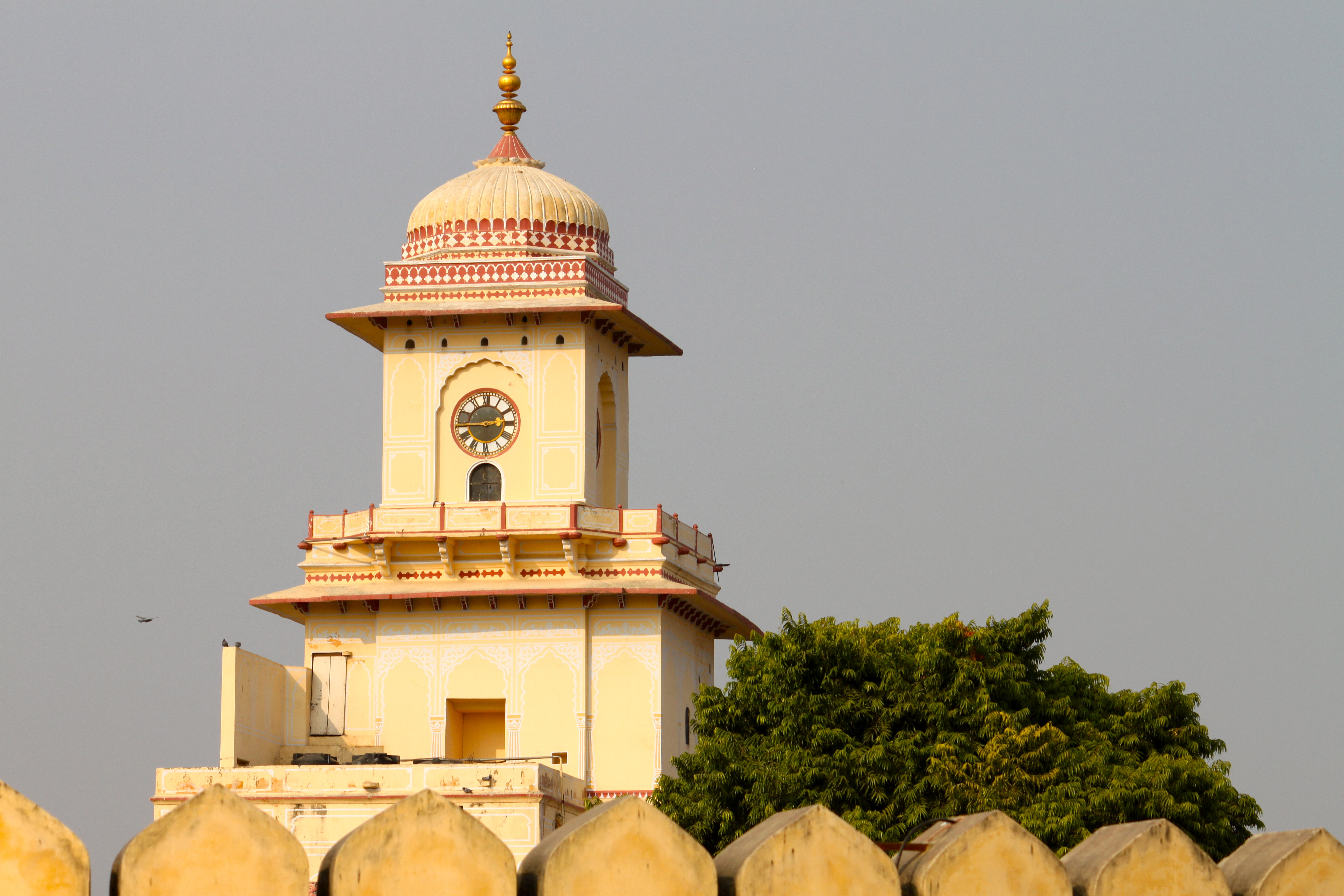 Clock Tower City Palace Jaipur taken from Jantar Mantar